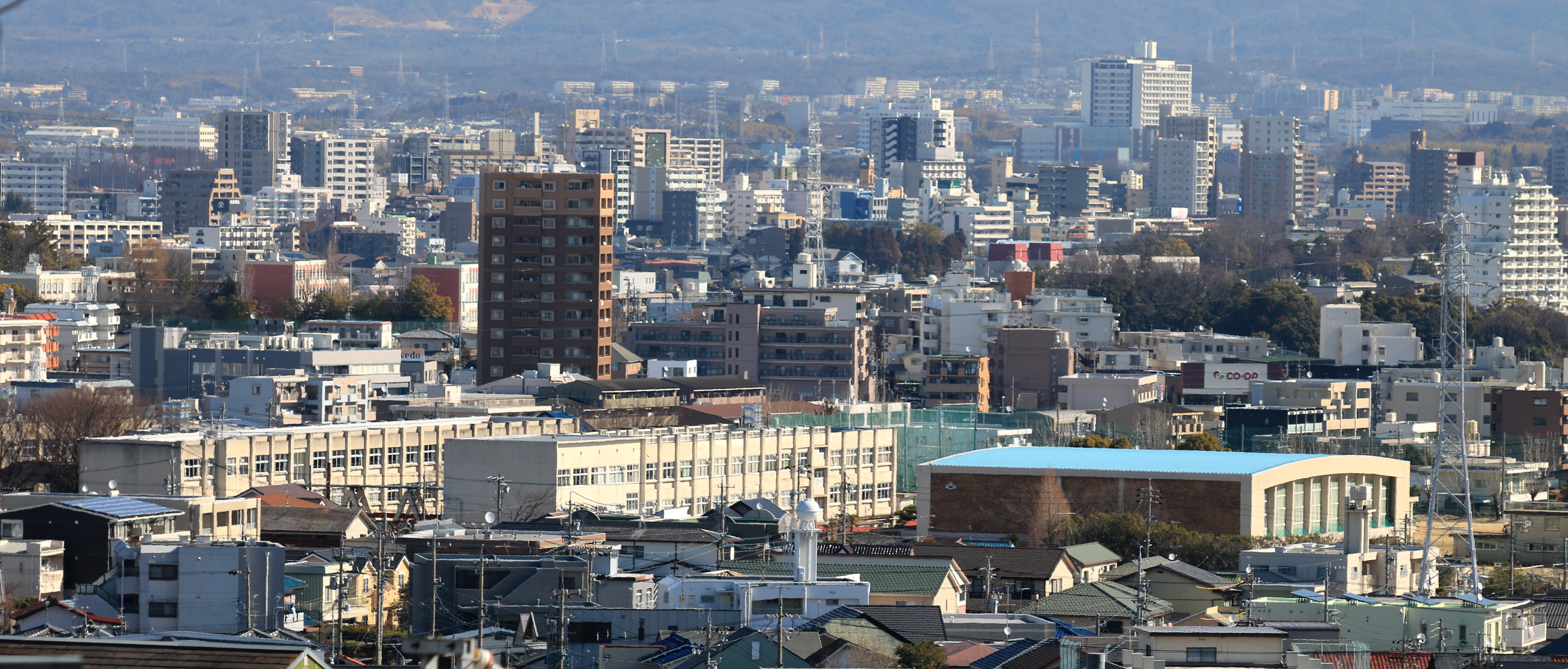 Chigusa High School seen from Heiwa Park in Meito-ku, Nagoya, Aichi prefecture, Japan.